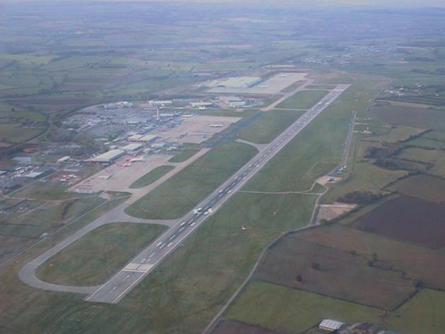 East Midlands Airport (EMA EGNX), UK, looking west, showing the runway 27.